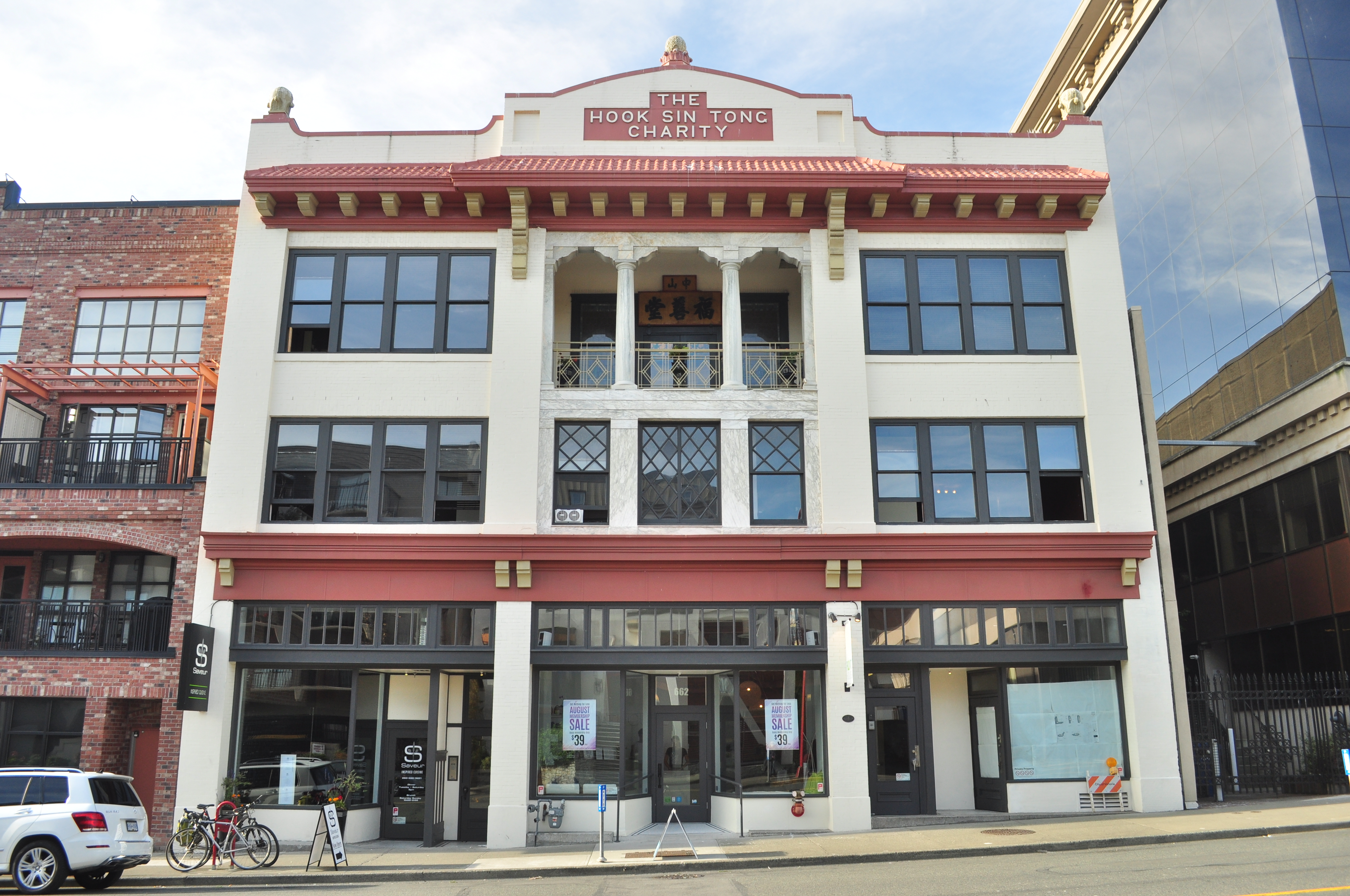 Hook Sin Tong Charity Building, 658 Herald Street, Victoria, British Columbia.